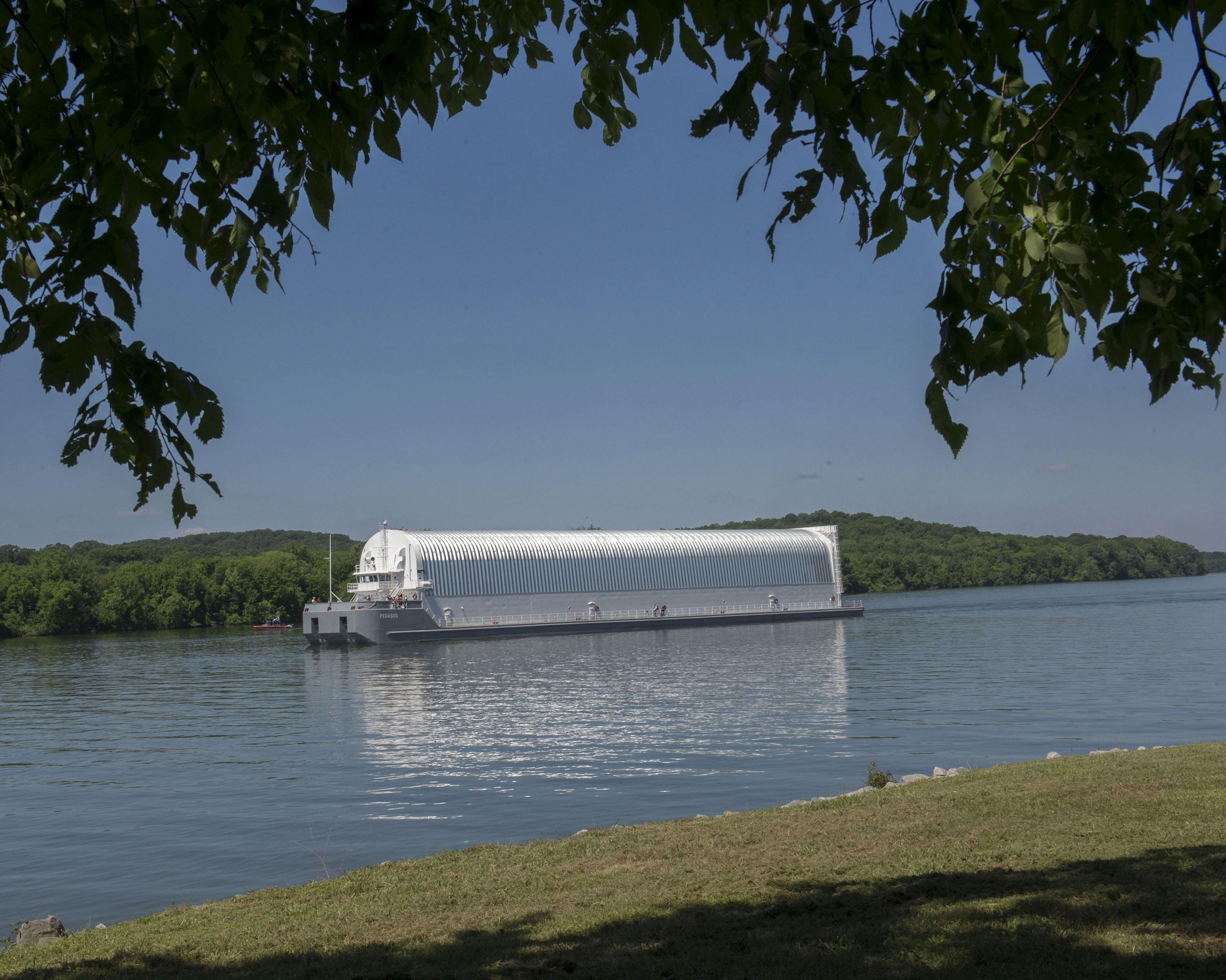 The engine section structural test article for NASA's Space Launch System rocket arrived at NASA’s Marshall Space Flight Center on May 15 on the barge Pegasus. The trip began on April 28 when Pegasus left NASA’s Michoud Assembly Facility in New Orleans on its 1,240-mile voyage. Alabama.